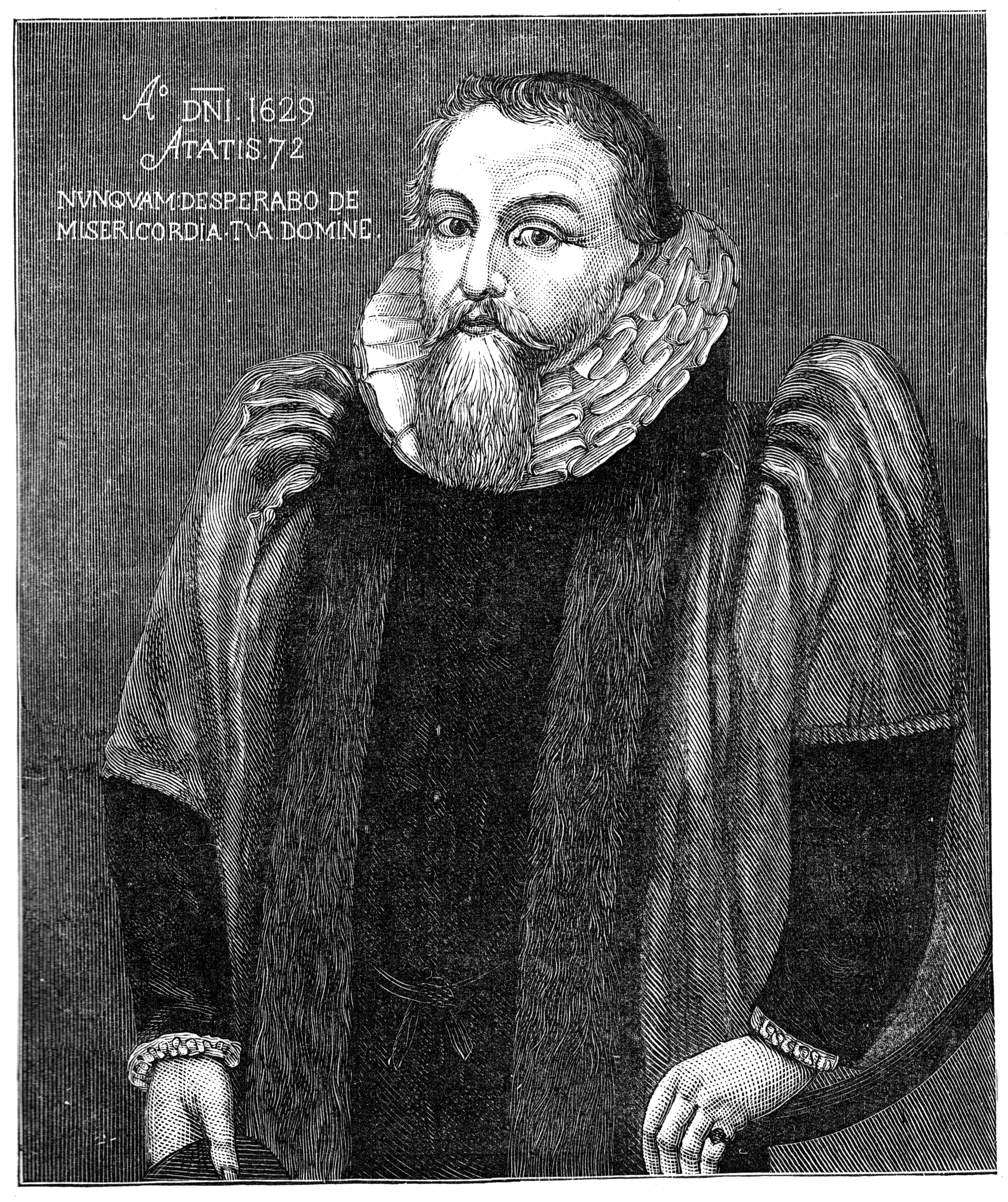 John Whitson, original benefactor of Red Maids' School